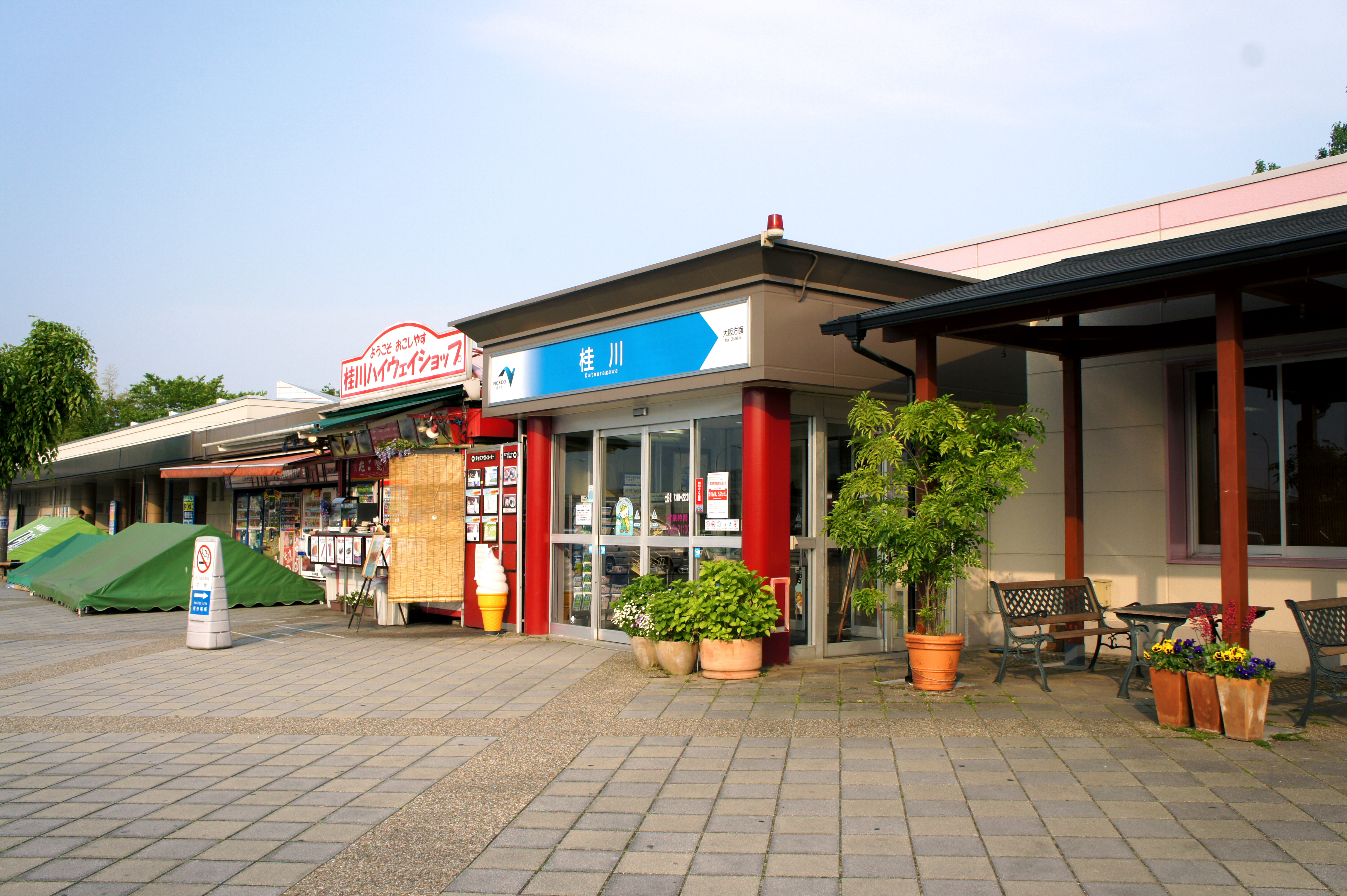 Katsuragawa Parking Area, Kuzehigashitsuchikawacho Minami-ku Kyoto-City Kyoto Japan.